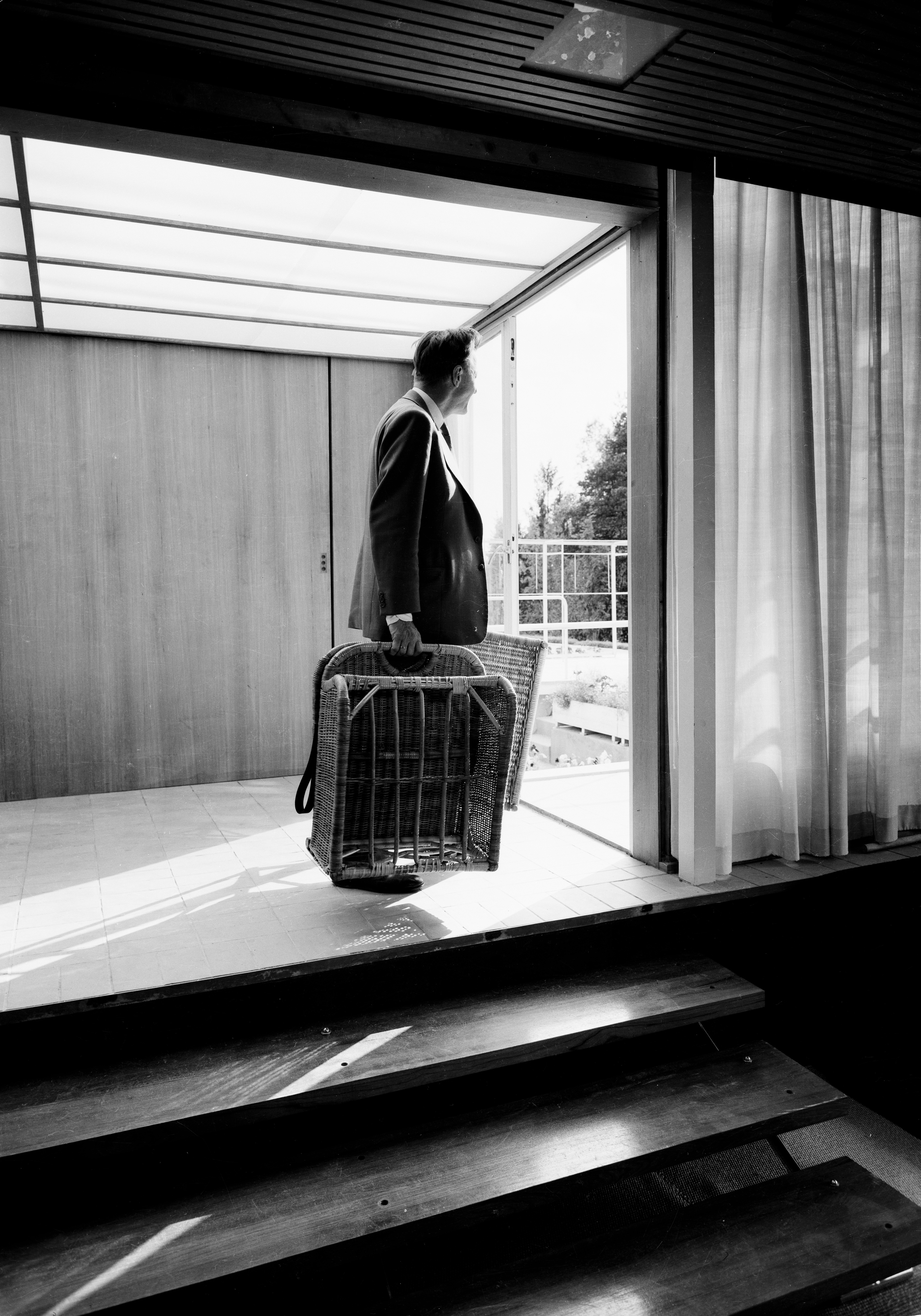 Arkitekturfoto av Planetveien 12, Arne Korsmo og Grete Prytz Kittelsens enebolig på Vettakollen i Oslo. Bygningen er tegnet av Korsmo og Christian Norberg-Schulz og ble bygget i 1954. Huset regnes som et av de viktigste verkene i norsk modernistisk, funksjonalistisk arkitektur, og er tegnet etter prinsippet om at alle form skal fylle en funksjon. Foto: Teigens Fotoaterlier/Dextra Photo (1954).